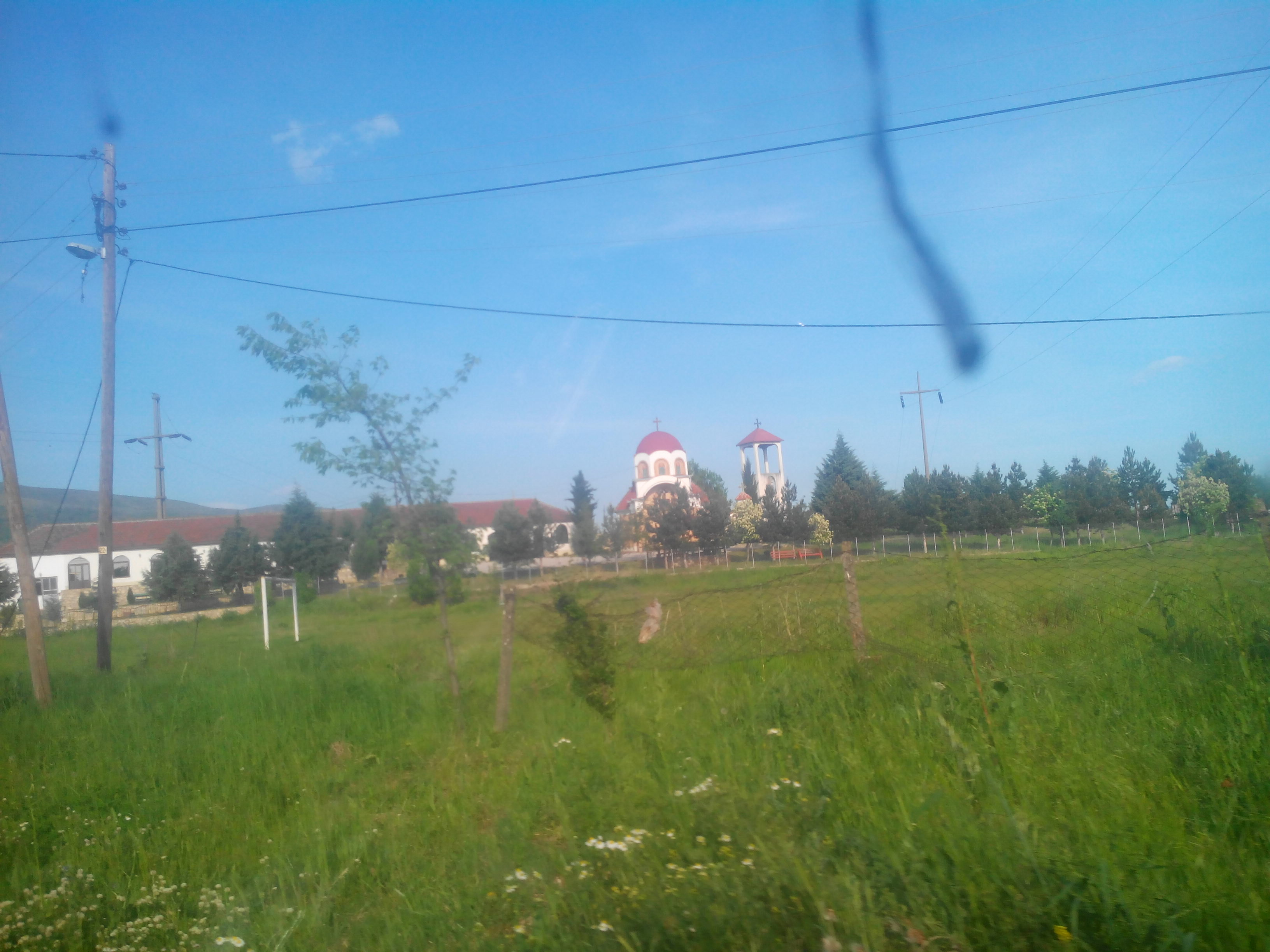 Црквата Света Недела од далеку